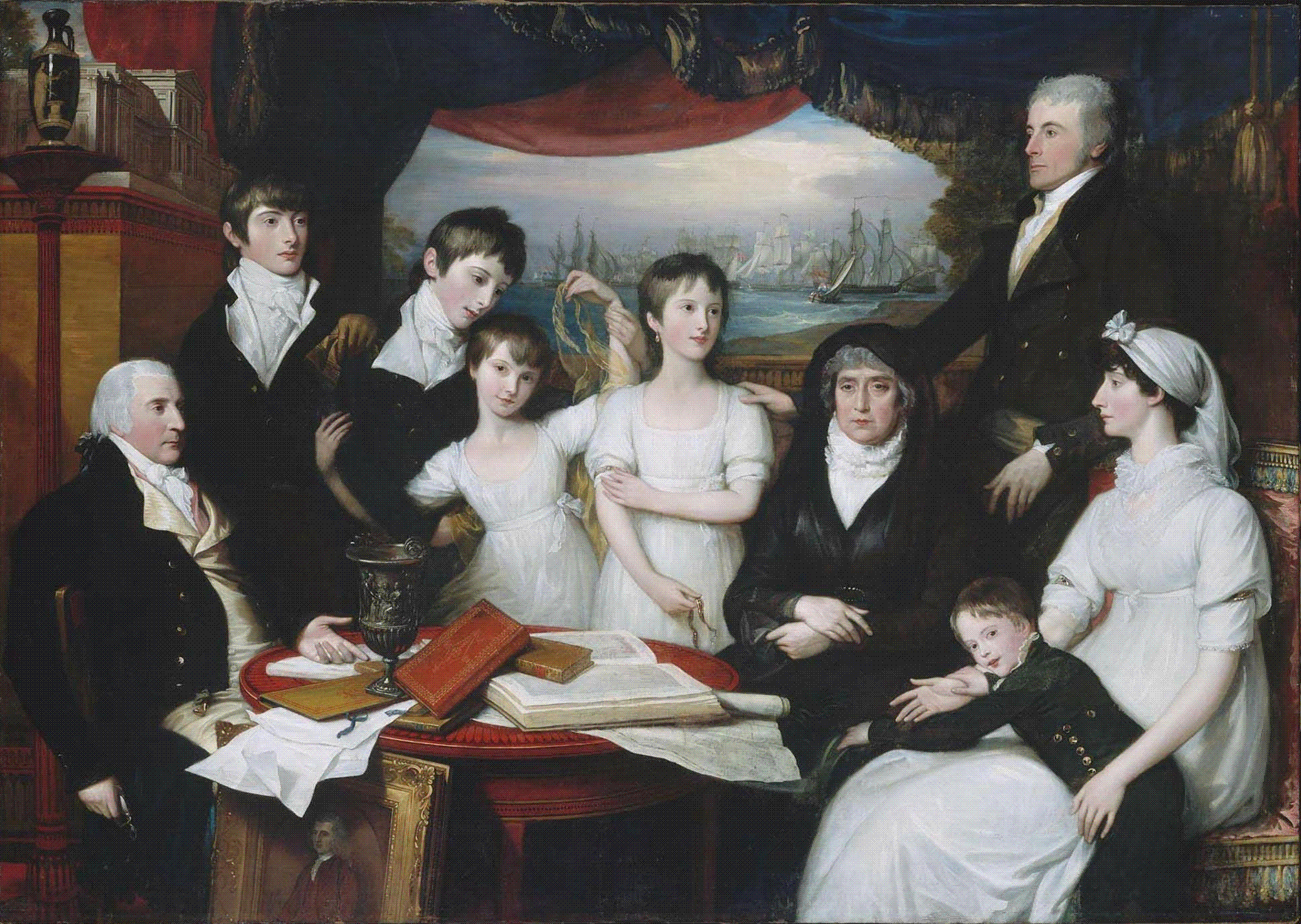 Henry Hope and his family posed below a maquette of his villa Welgelegen in Haarlem, the Netherlands. From left to right: Henry, his sister Harriet Goddard's grandchildren Henry (1785), Adrian (1788), Elizabeth (1794), Henrietta (1790), Harriet herself, Henry's adopted son John Williams Hope, John's youngest son William (1802), and John's wife Ann Goddard.